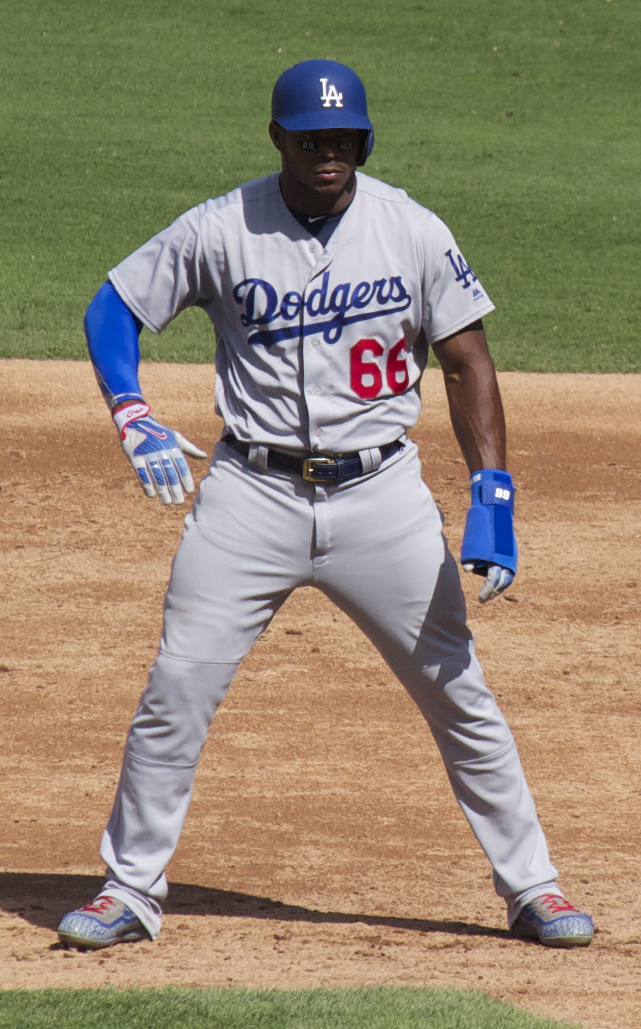 Philadelphia Phillies vs. Los Angeles Dodgers, 9/21/17